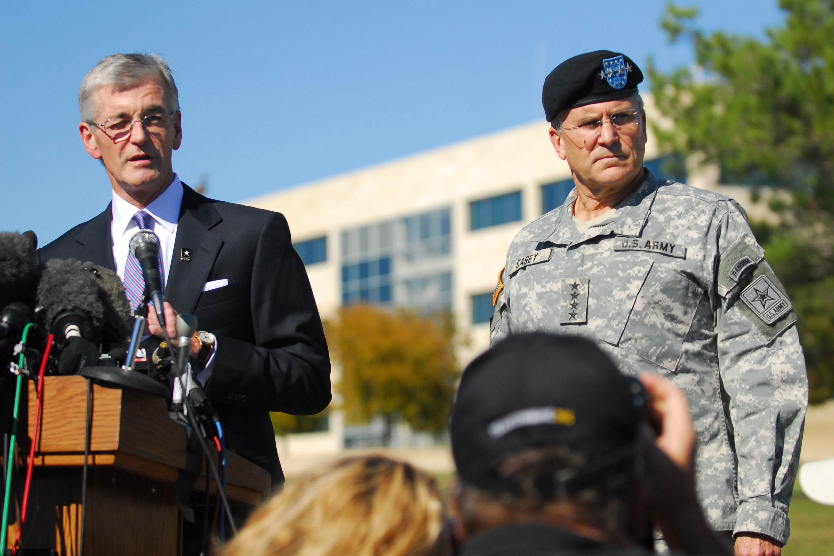 Army Secretary John McHugh, fields a question from a media member at a press conference on Sadowski Field outside the III Corps headquarters building at Fort Hood, Texas, Nov. 6, 2009, while Army Chief of Staff Gen. George Casey looks on. The secretary pledged the Army's unwavering support for the soldiers and families hit by a Nov. 5 attack by a lone gunman that left 13 dead and 30 wounded. U.S. Army photo by Spc. Eric Martinez See more at